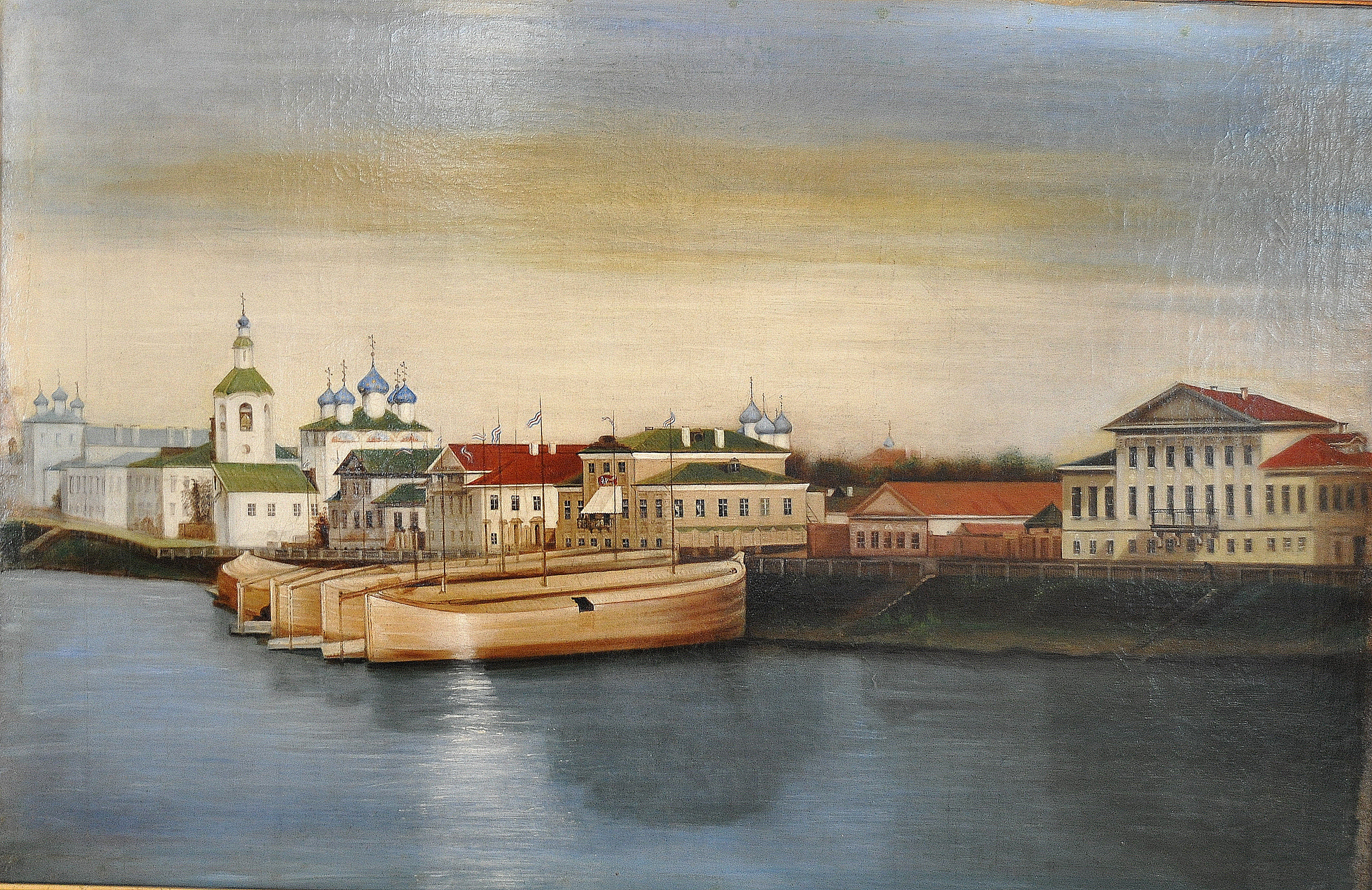 Korchagin. Dmitrievskaya enbankment in Vologda; oil on canvas, 1870